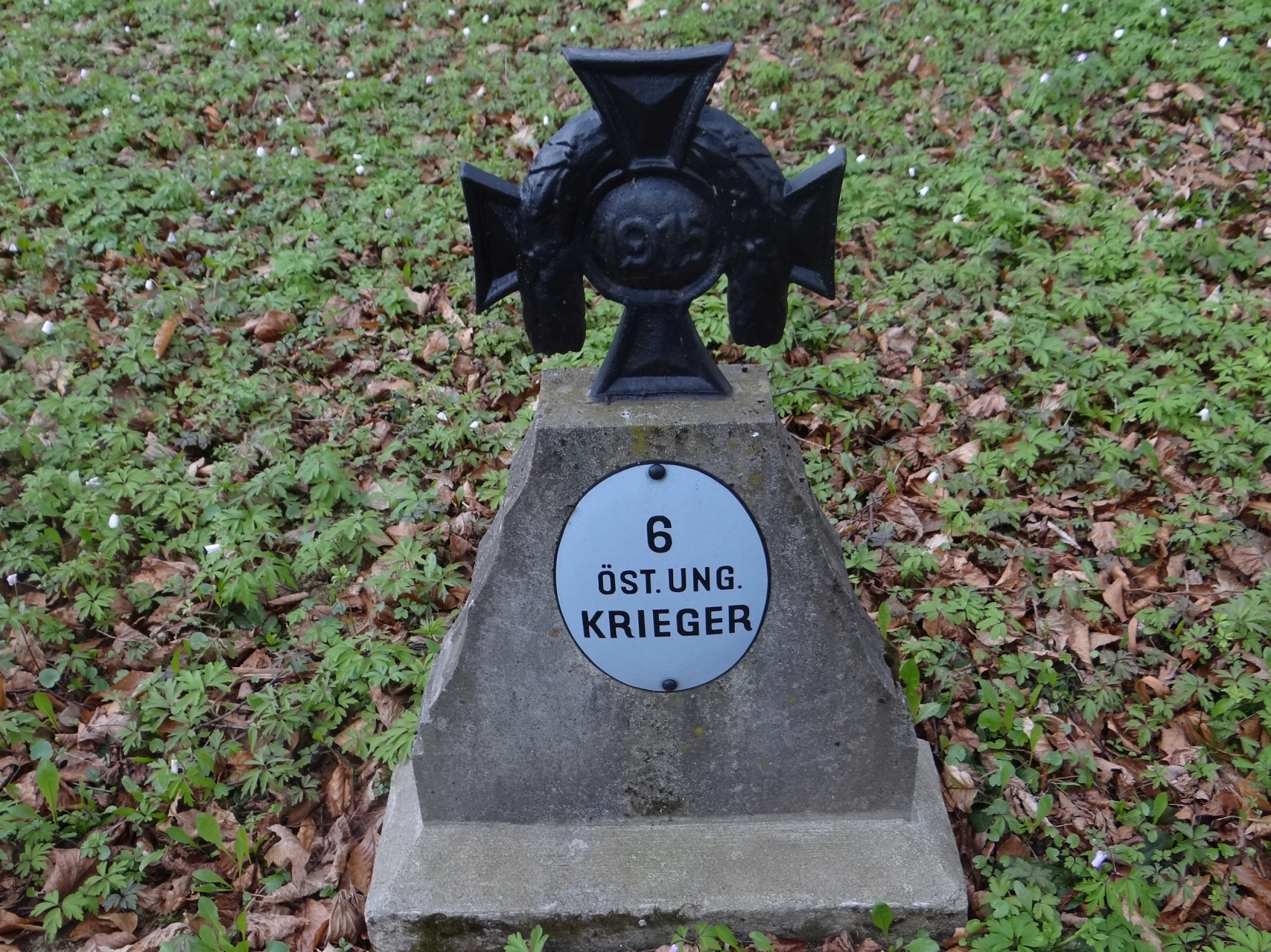 World War I Cemetery nr 187 in Lichwin